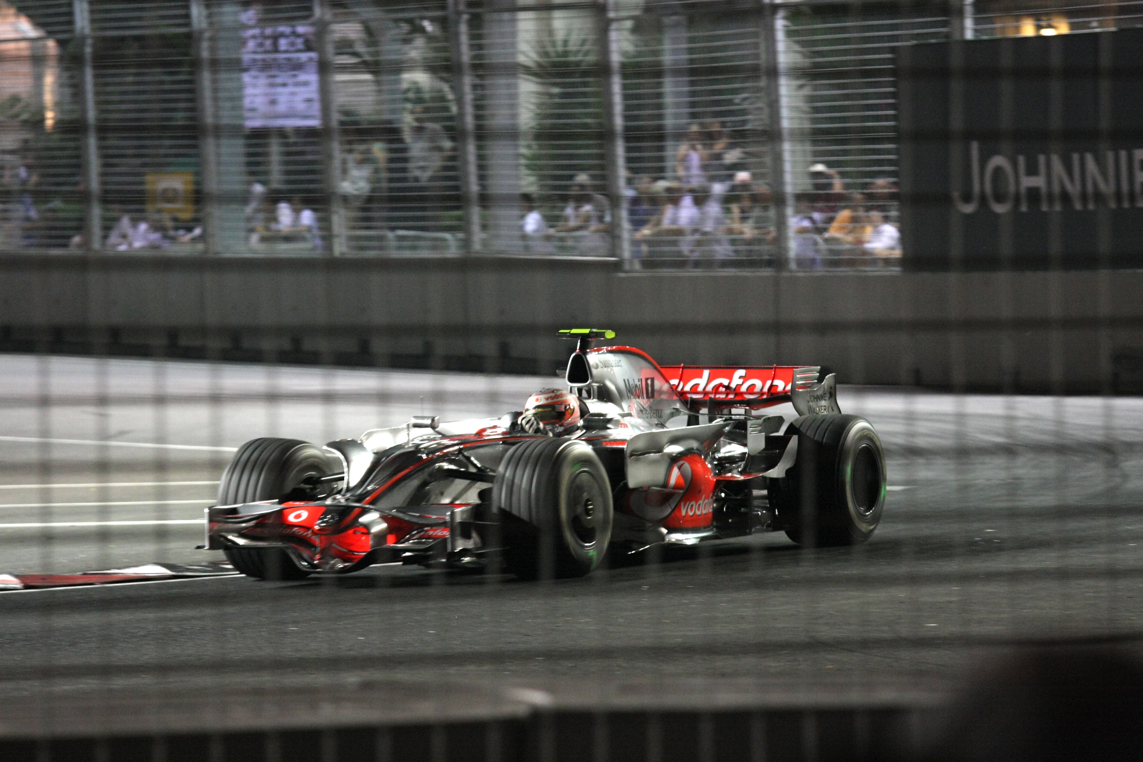 Heikki Kovalainen driving for McLaren at the 2008 Singapore Grand Prix.